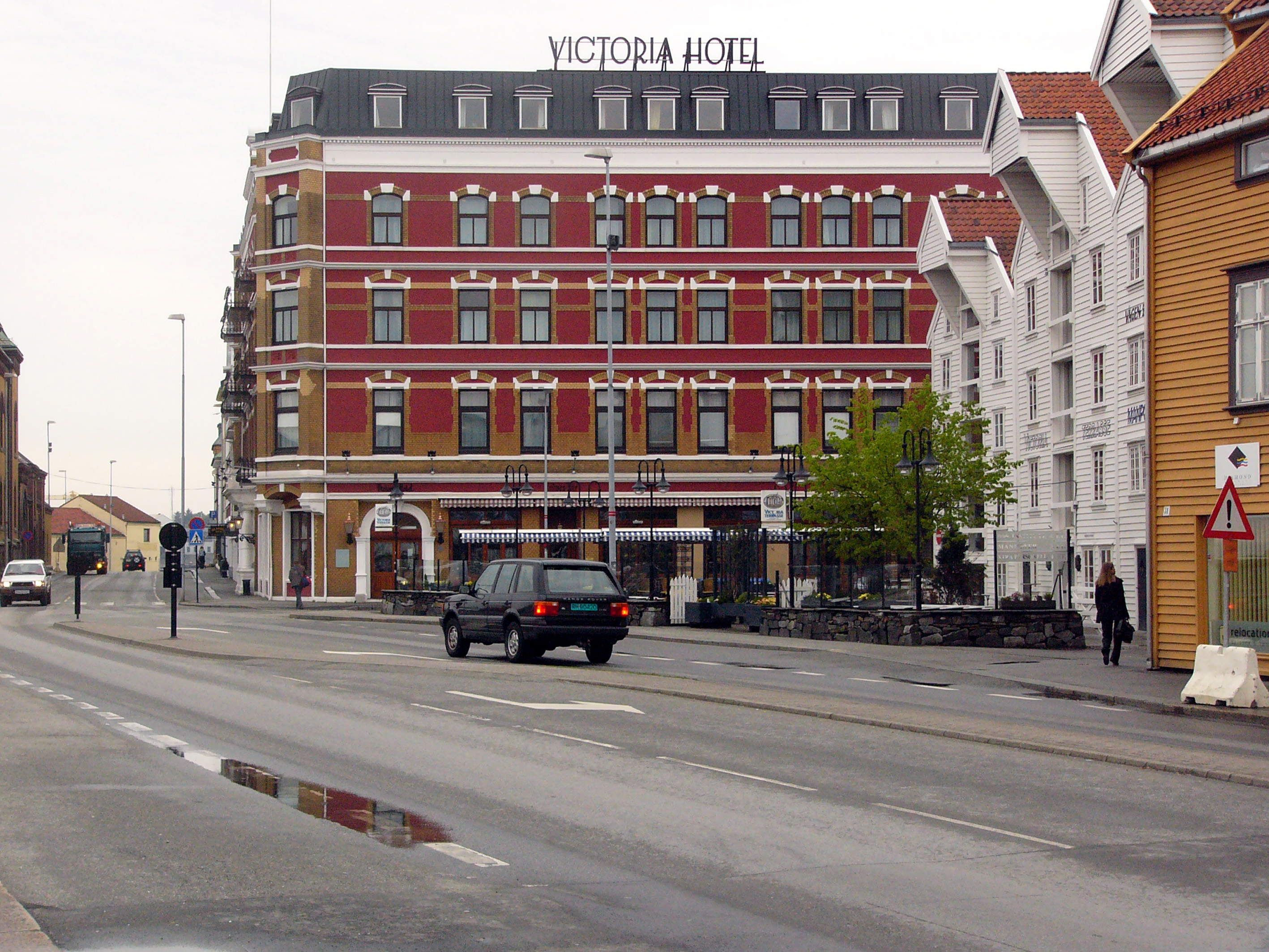 Hotel Viktoria in Stavanger.